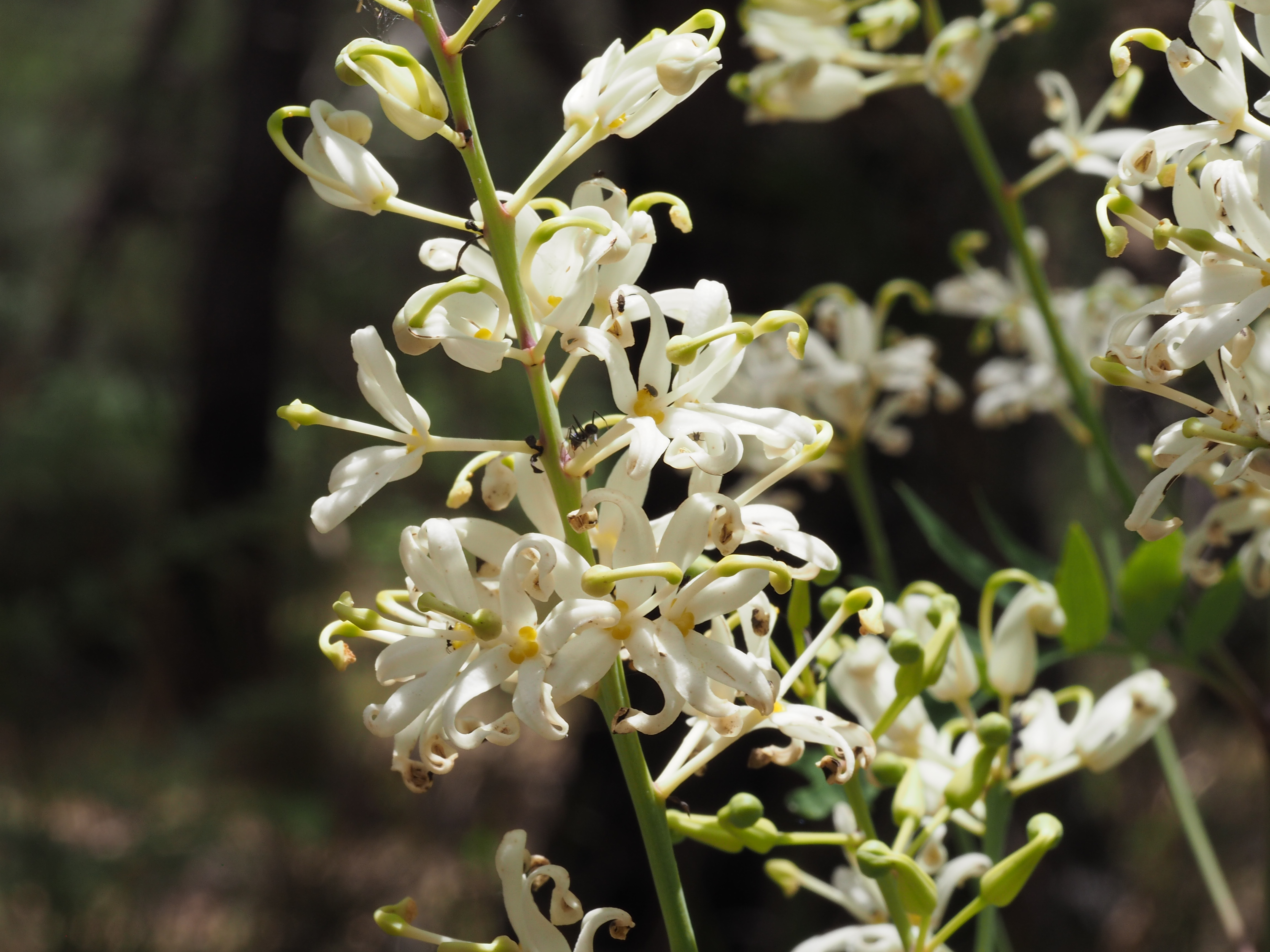 Lomatia silaifolia in the Boonoo Boonoo National Park